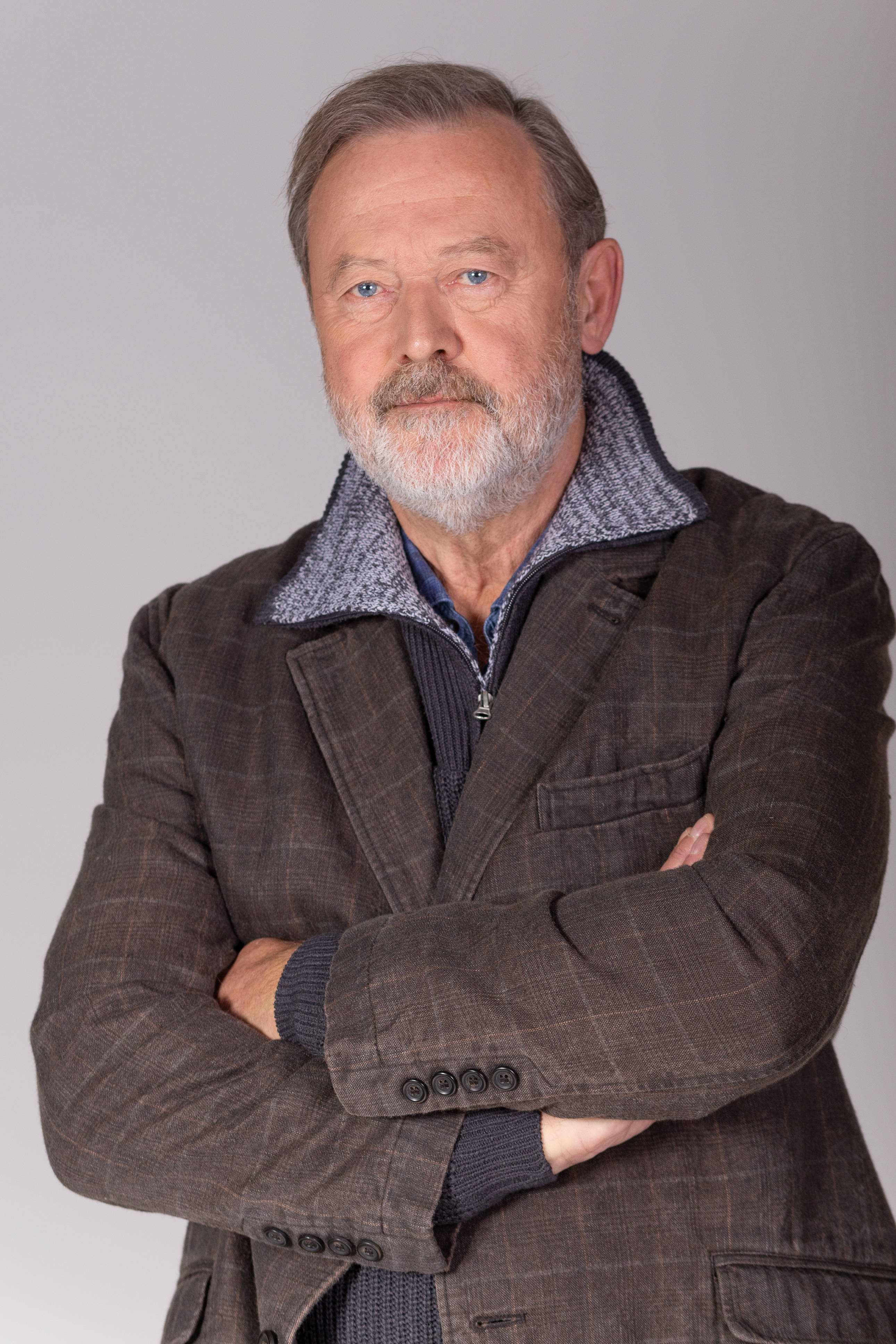 TV, ARD, cast "Rote Rosen"; Wolfgang Häntsch